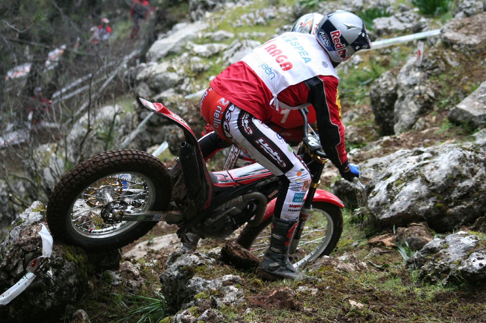 bun poquito más Adam Raga @ FIM Trial World Championship 2007 R1